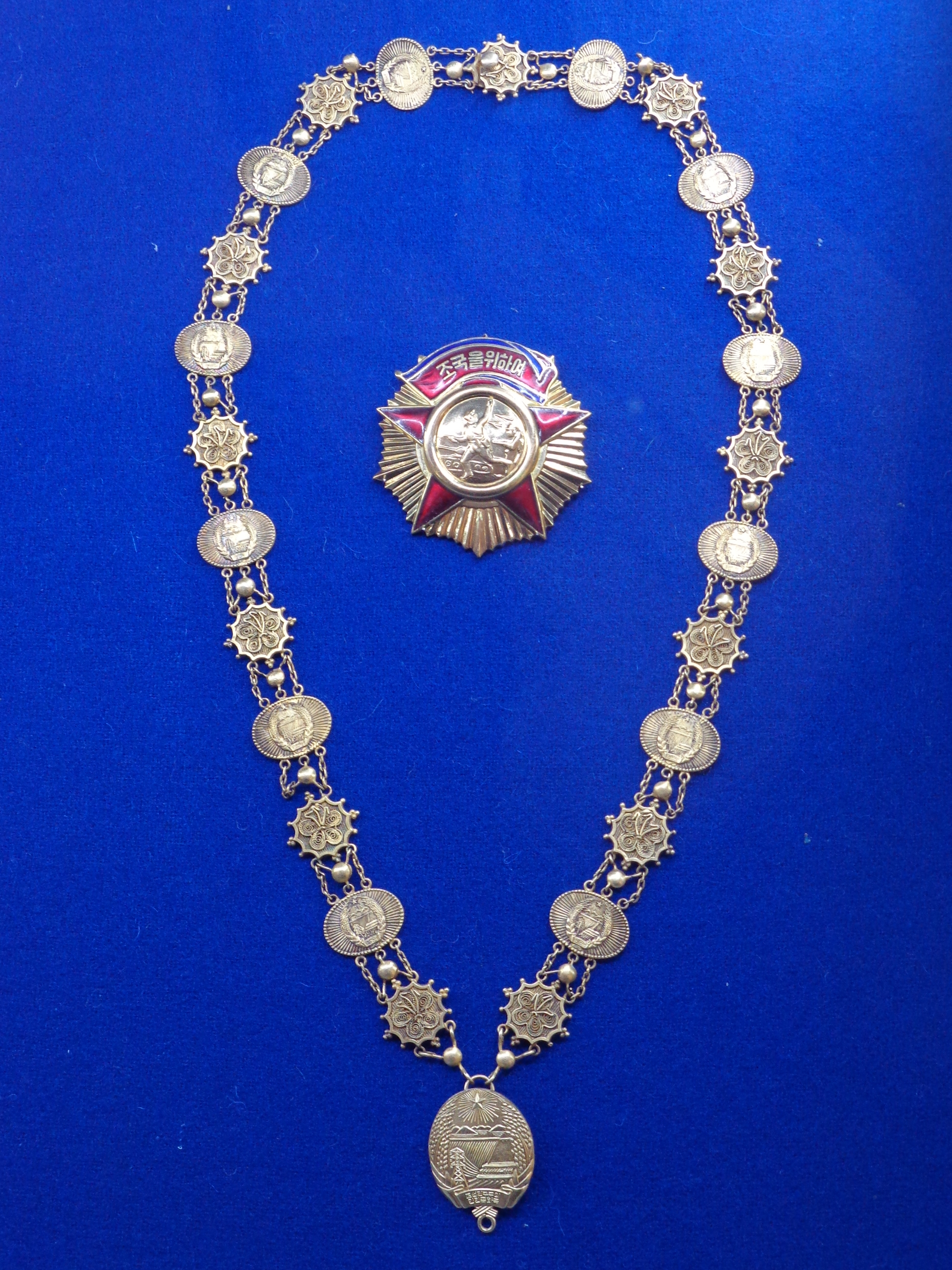 Order of Freedom and Independence 1st class, collar, badge and star. North Korea. The exhibition of the Tallinn Museum of Orders of Knighthood, Estonia.